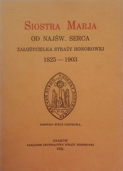 The cover of the biography of Marie du Sacré-Cœur Bernaud in polish, 1932